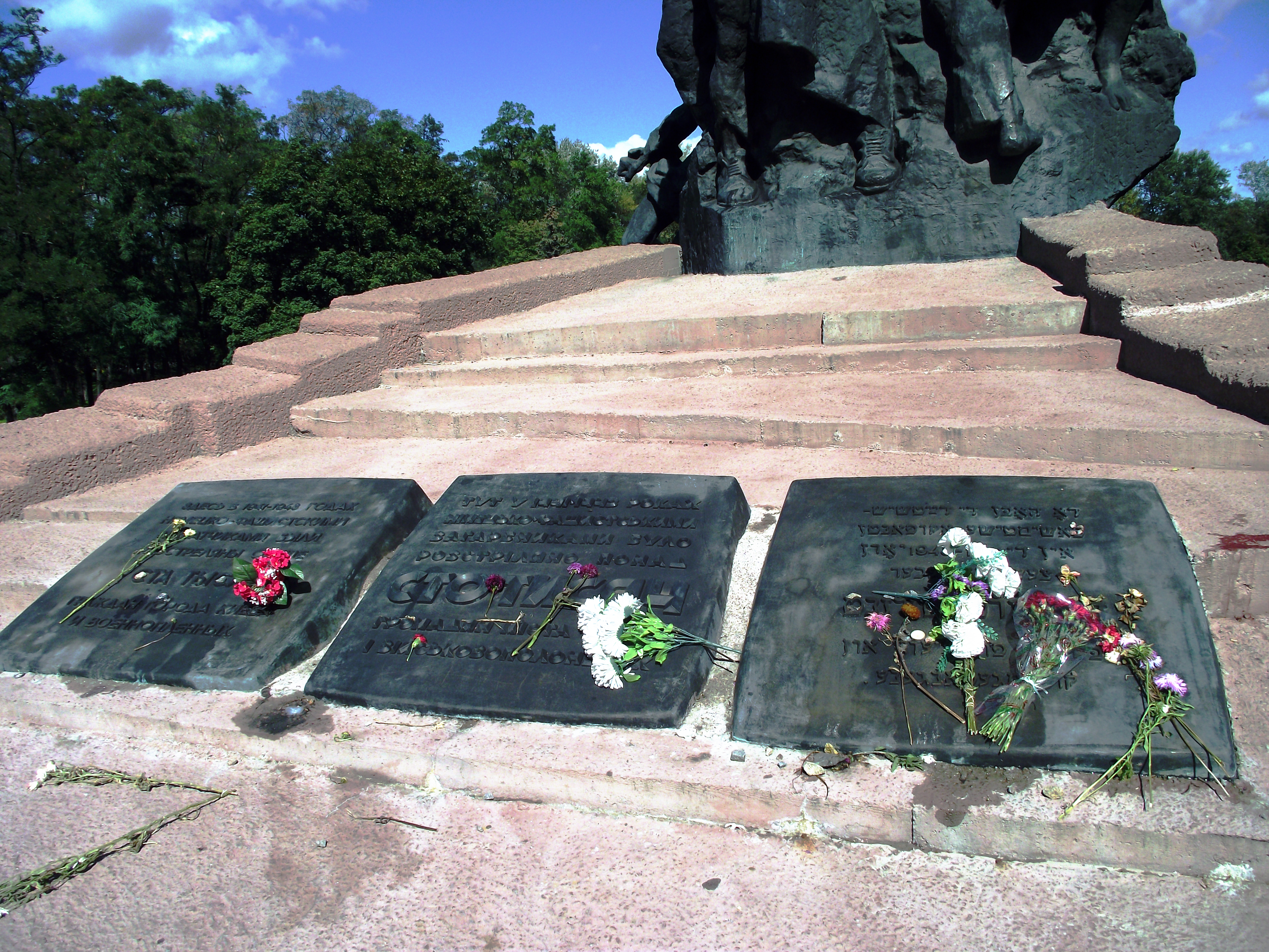 The inscription in three languages - Russian, Ukrainian and Jewish